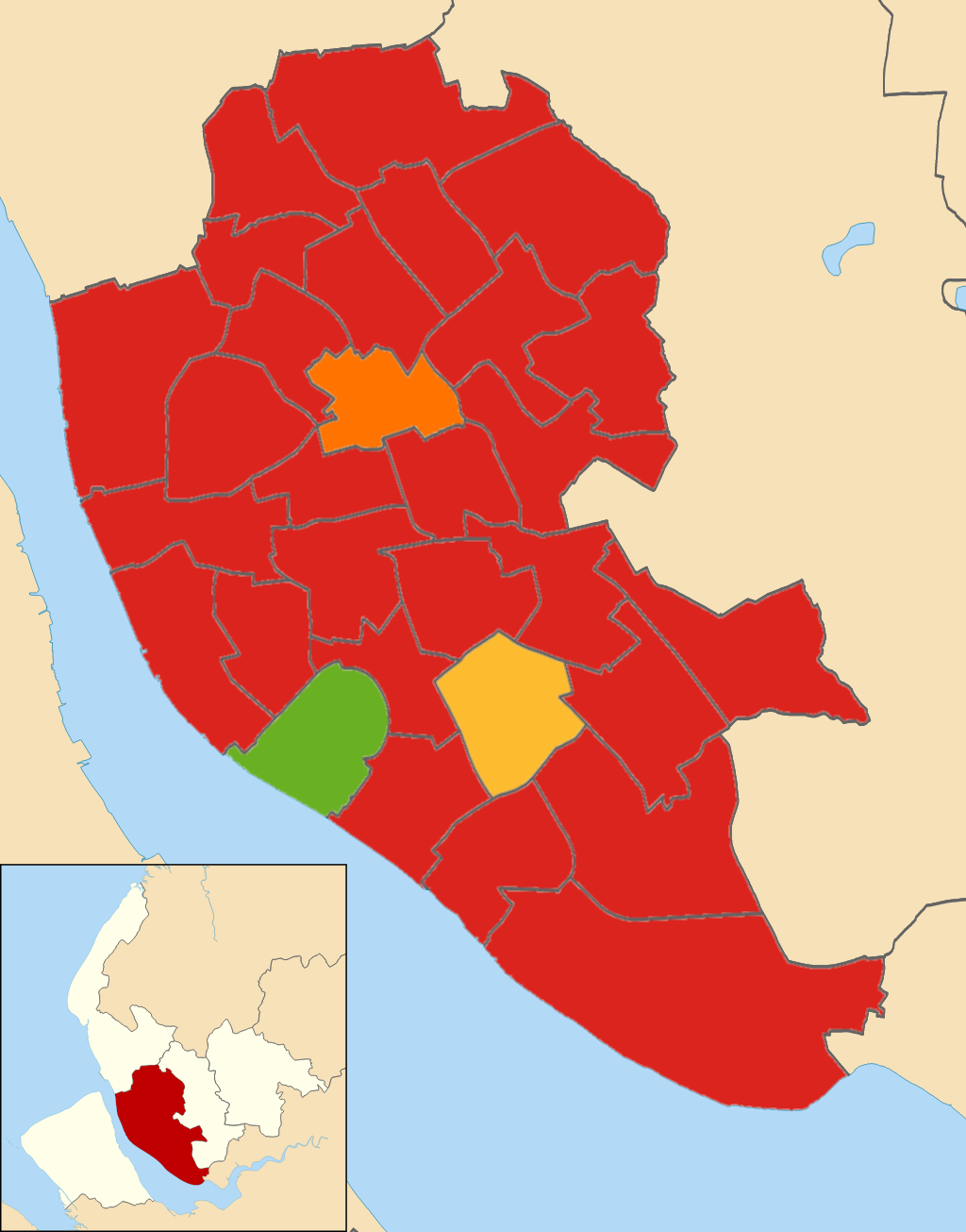 Results of the 2012 local elections in Liverpool Colours: Labour Liberal Democrat Liberal Party Green party of England and Wales